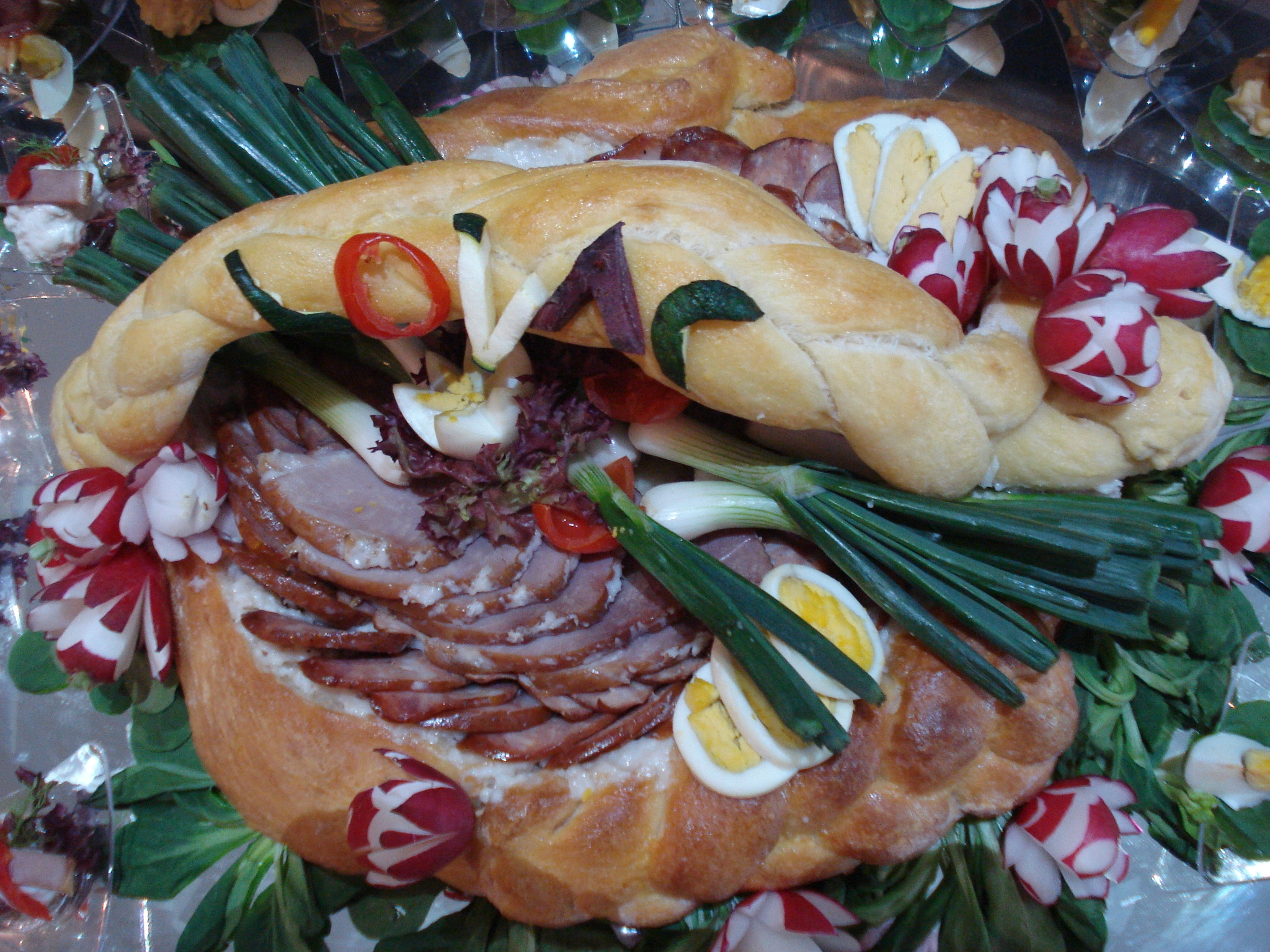 Meat from "tiblitsa" wooden barrel from Medjimurje County, northern Croatia - arranged